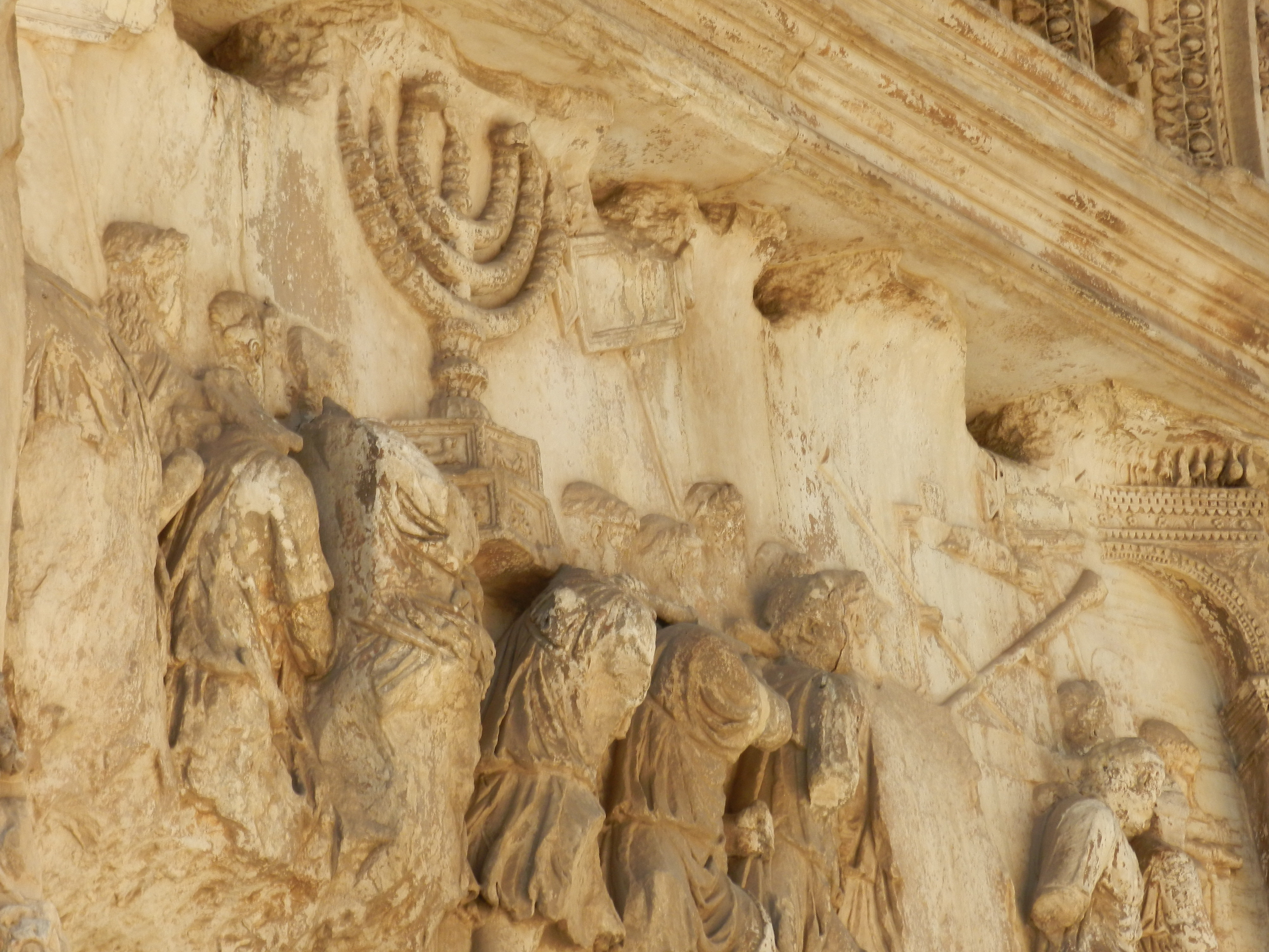 Arch of Titus, Forum Romanum, Rome, Italy